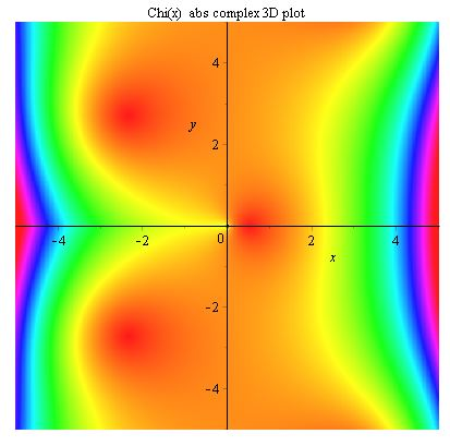 Chi(x) abs complex density plot